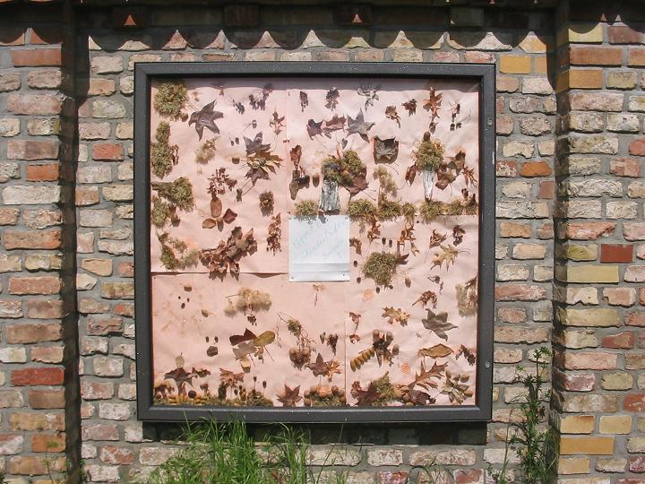 Comenius-Garten nearby the Böhmisches Dorf (Böhmisch-Rixdorf) in Berlin-Neukölln, Germany.